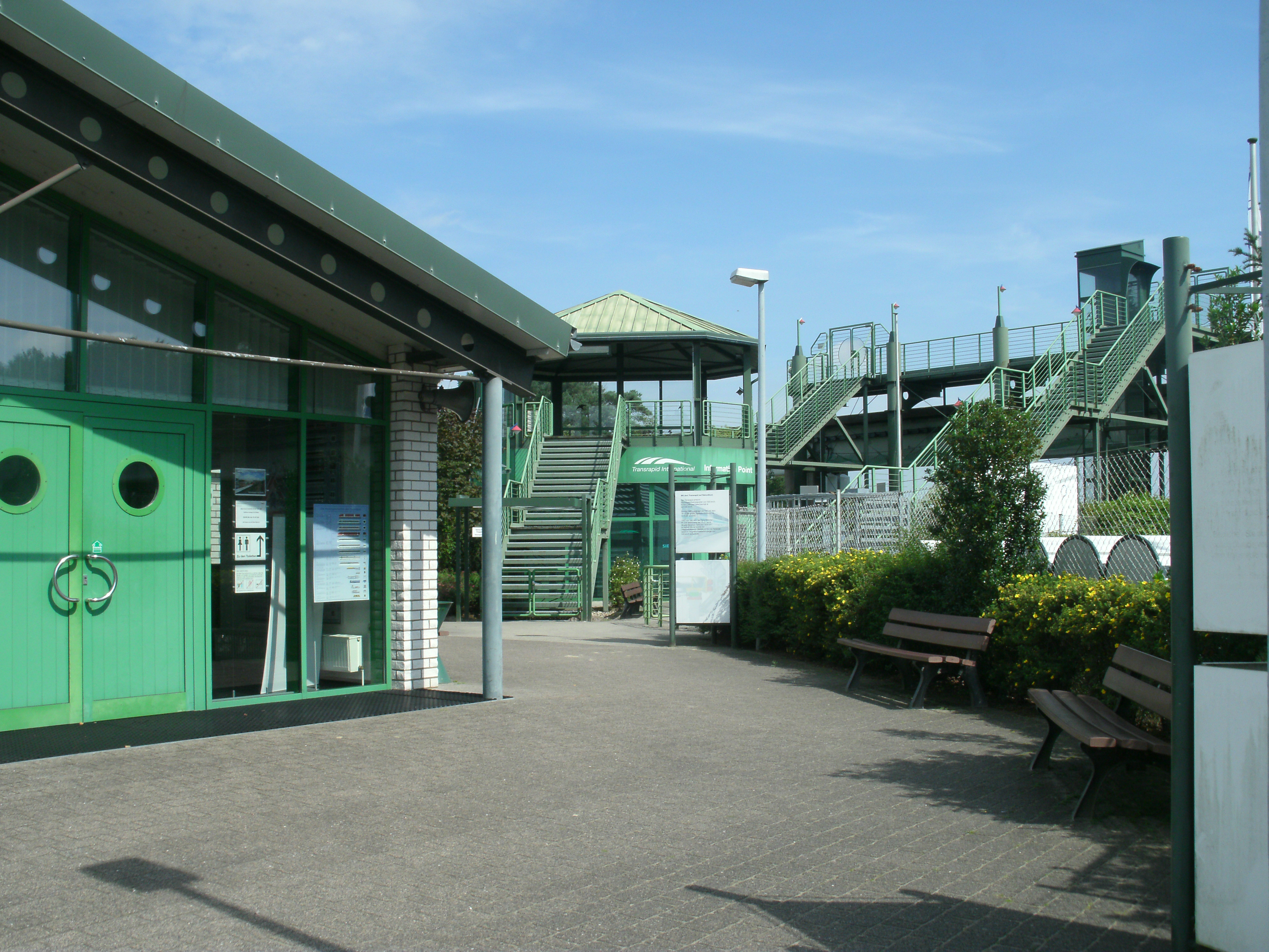 Transrapid Test Facility in Lathen (Emsland), Germany. In the foreground left the visitor center, in the background the platform